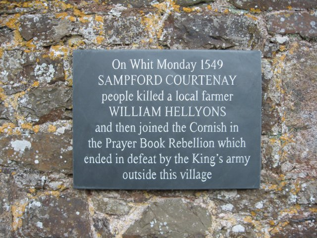 Prayer Book Rebellion, Sampford Courtenay The Prayer Book Rebellion was a popular revolt in Cornwall and Devon, in 1549. In 1549 the Book of Common Prayer, presenting the theology of the English Reformation, was introduced. The change was widely unpopular — particularly in areas of still firmly Catholic religious loyalty (even after the Act of Supremacy in 1534 ), for example, in Cornwall and Devon, but also in Lancashire. Along with poor economic conditions, the attack on the Church led to an explosion of anger. In Cornwall, rebel forces of peasants and local businessmen gathered. In response, the Lord Protector the Duke of Somerset, ordered an army composed largely of German and Italian mercenaries sent to impose a military solution.....